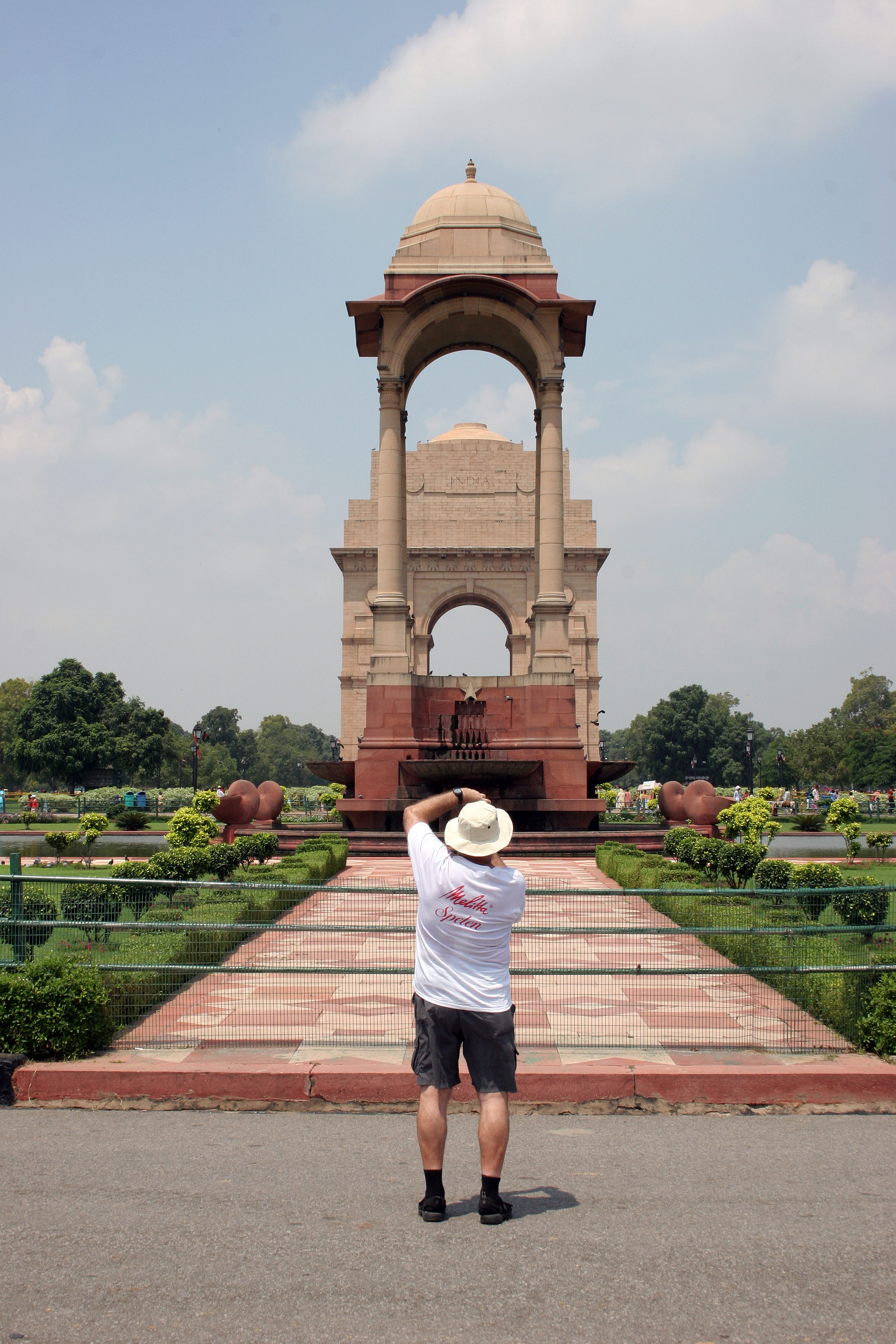 India Gate, a WWI memorial in New Delhi, India.